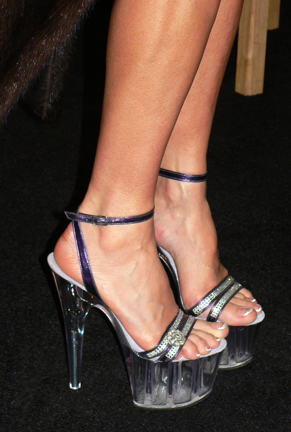 Acrylic platform sandals.